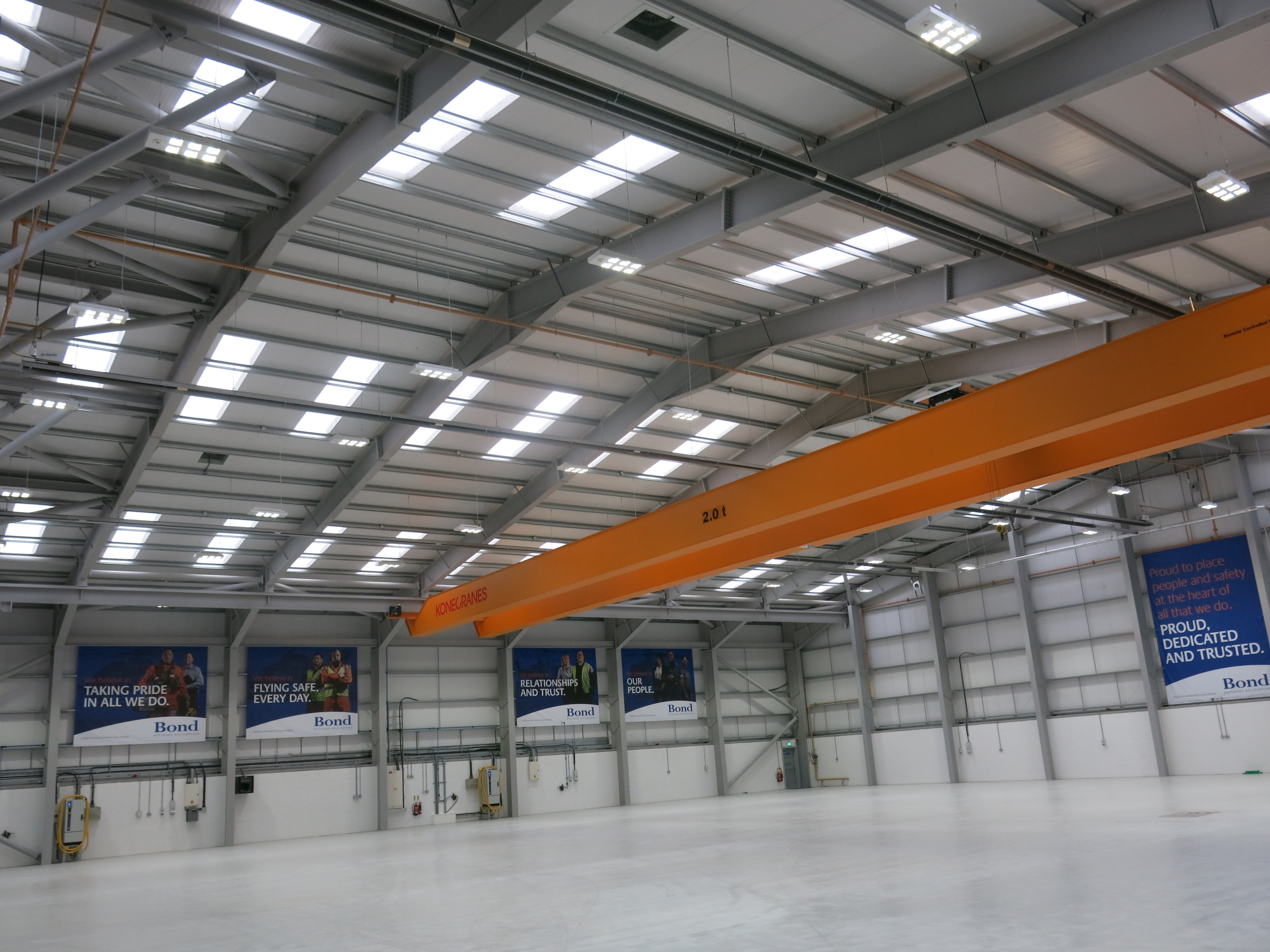 Pic of Bond Hnagar interior